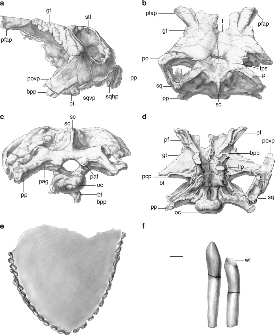 Cranial material of Lingwulong shenqi. Braincase in: left lateral (a), dorsal (b), occipital (c), and ventral (d) views. Dentary teeth in occlusal view (e). The 5th and 6th left dentary tooth crowns in labial view (f). Abbreviations: bpp, basipterygoid process; bt, basal tubera; f, frontal; fps, frontoparietal suture; gt, grooves and tubercles; pf, prefrontal; llp, ‘leaf’-like process; oc, occipital condyle; p, parietal; pcp, capitate process; paf, proatlantal facet; pag, proatlantal groove; pfap, prefrontal anterior process; po, postorbital; povp, postorbital ventral process; pp, paroccipital process; sc, sagittal crest; so, supraoccipital; sq, squamosal; sqhp, squamosal hook-like process; sqvp, squamosal ventral process; stf, supratemporal fenestra; wf, wear facet. Scale bars = 20 mm for a–e and 10 mm for f